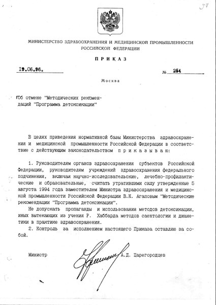 Приказ Министерства здравоохранения и медицинской промышленности РФ от 19.06.1996 г. № 254 «Об отмене «Методических рекомендаций «Программа детоксикации»